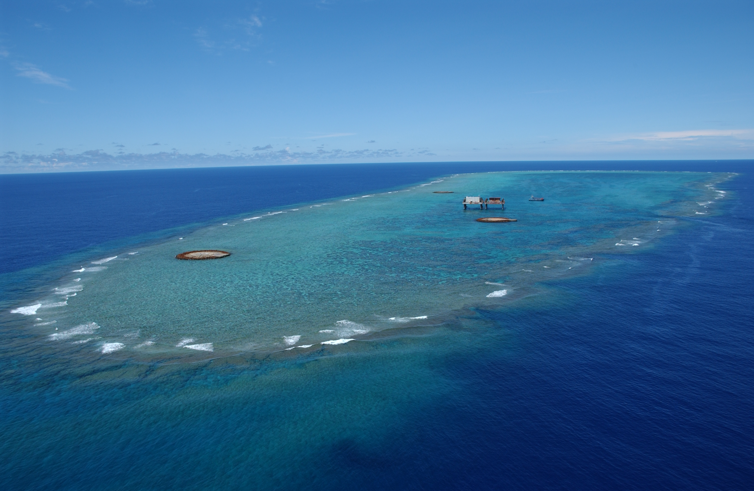 Aerial view of Okinotorishima, Japan.